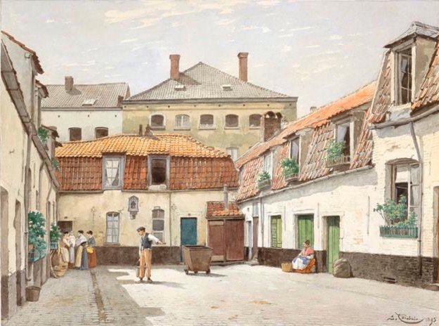 Aquarel painting by Jacques Cabarain of the old Brussels (Impasse du Roulier/Voermansgang)